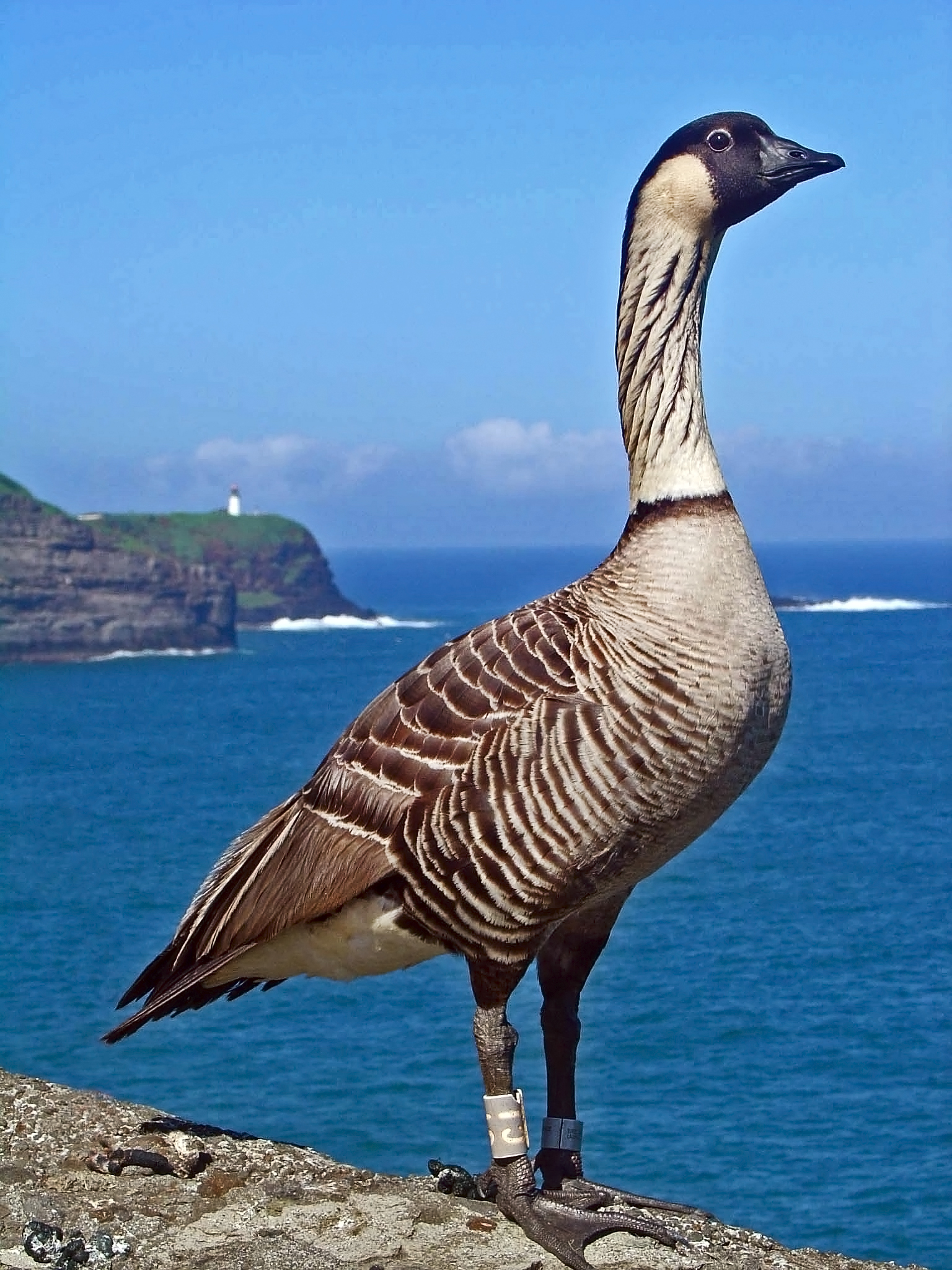 A Hawaiian Goose (also known as Nēnē) in Kilauea Point National Wildlife Refuge, Hawaii, USA.